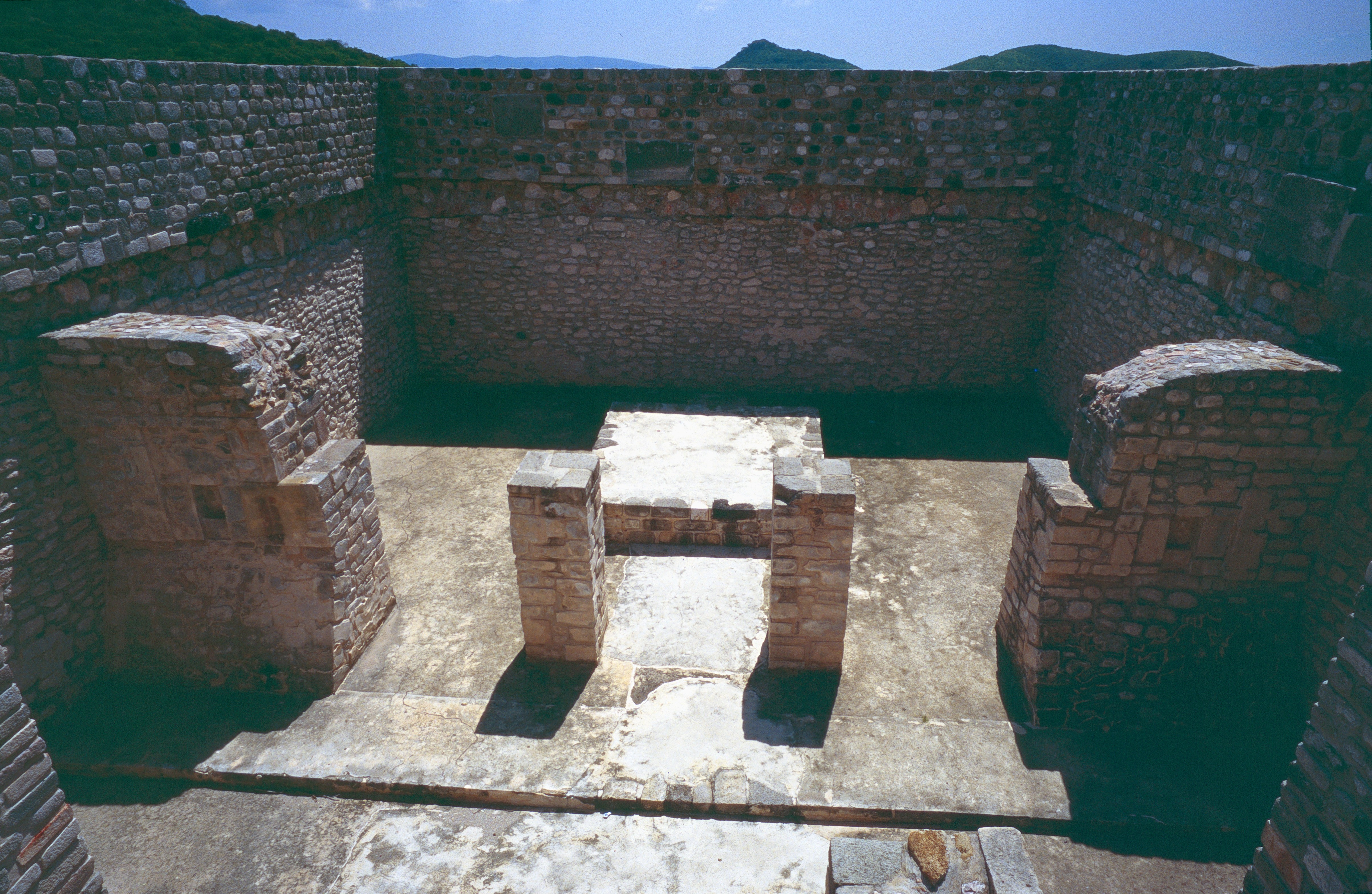 Xochicalco, Morelos, Mexico: pyramid of the feathered serpent, earlier construction